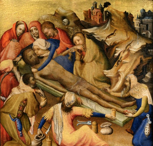 Embalming of the Body of Christ from triptych, Netherlandish (Bruges), c. 1410-20